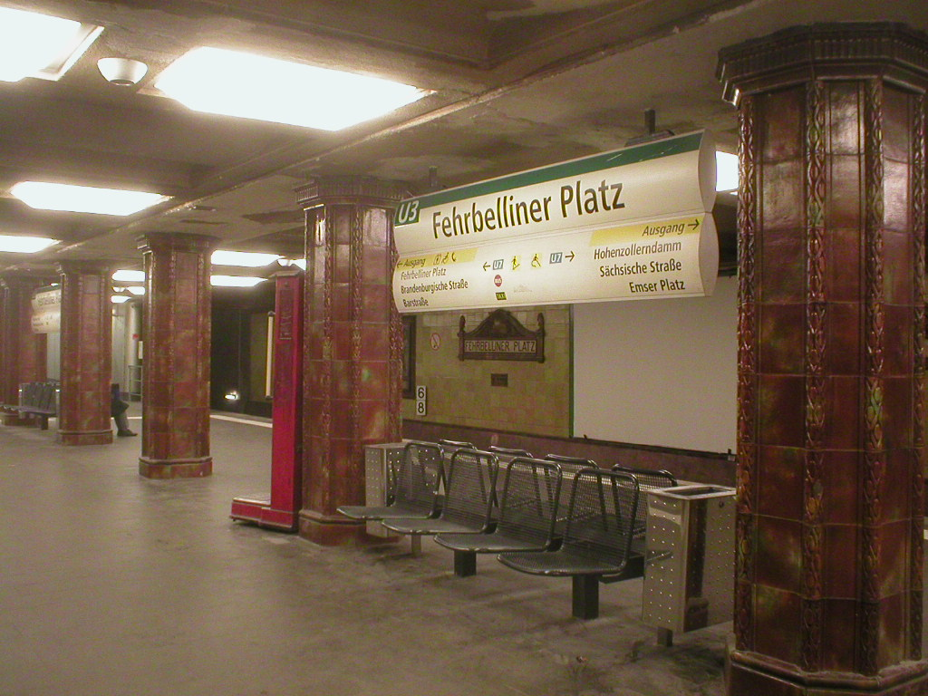 The Berlin U-Bahn station Fehrbelliner Platz, line U3